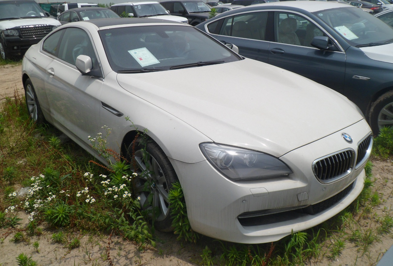 BMW 6-Series F13 photographed in Shanghai, China.